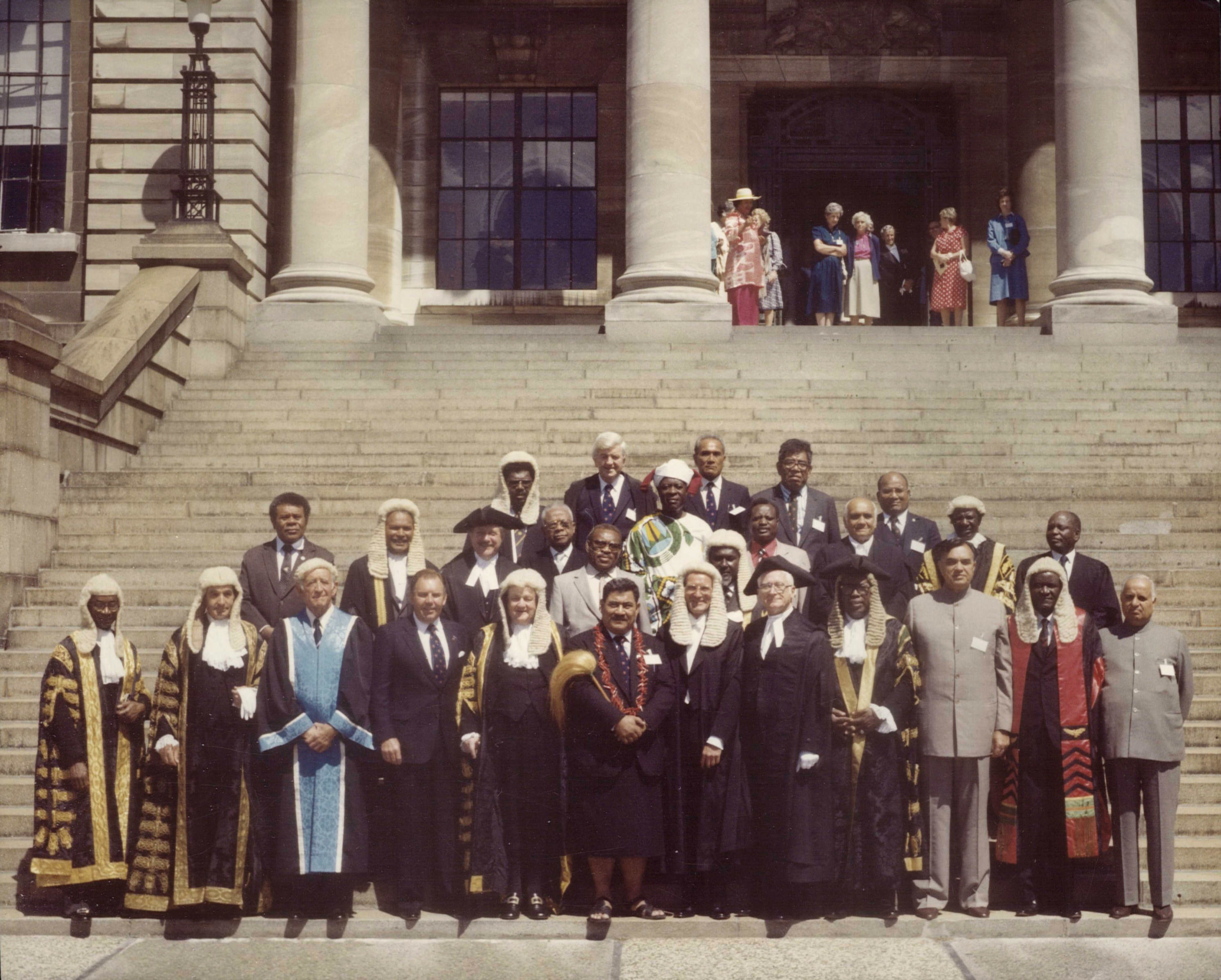 On January 8 1984 the Commonwealth Speakers and Presiding Officers conference began in Wellington, New Zealand. The conference ran until January 15. The Conference brings together the Speakers and Presiding Officers of the national parliaments of the independent sovereign states of the Commonwealth. It was created in 1969 as an initiative of the Speaker of the House of Commons of Canada, the Honourable Lucien Lamoureux. The Conference is an independent group and has no formal affiliation with the Commonwealth Parliamentary Association, the Commonwealth Secretariat or the Commonwealth Heads of Government. The conference operates on a two-year cycle, holding a conference of the full membership every two years, usually early in January, and a meeting of the Standing Committee at the same time the intervening year. The Conference aims to: •Maintain, foster, and encourage impartiality and fairness on the part of Speakers and Presiding Officers of Parliaments; •Promote knowledge and understanding of parliamentary democracy in its various forms; and •Develop parliamentary institutions. Pictured here are the speakers of Parliament, on the steps of the Parliament in Wellington, New Zealand. The last Commonwealth Speakers and Presiding Officers conference held in Wellington was in 2014. Reference: ABGX 7574 W4969 2/a (R2186542) For further enquiries please Material from Archives New Zealand